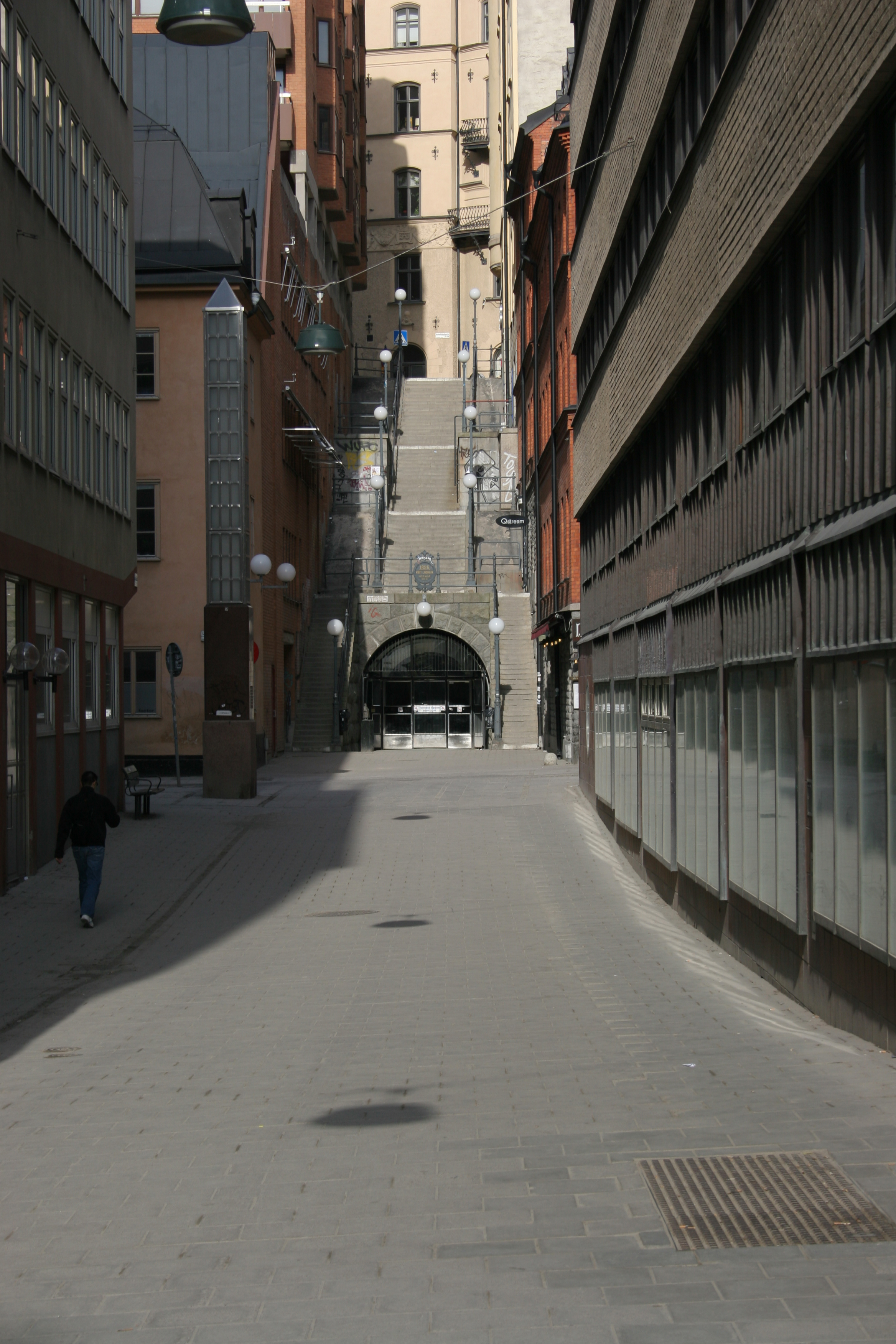 Tunnelgatan, Stockholm, Sweden. The escaperoute of the murder of Olof Palme, February 28, 1986.